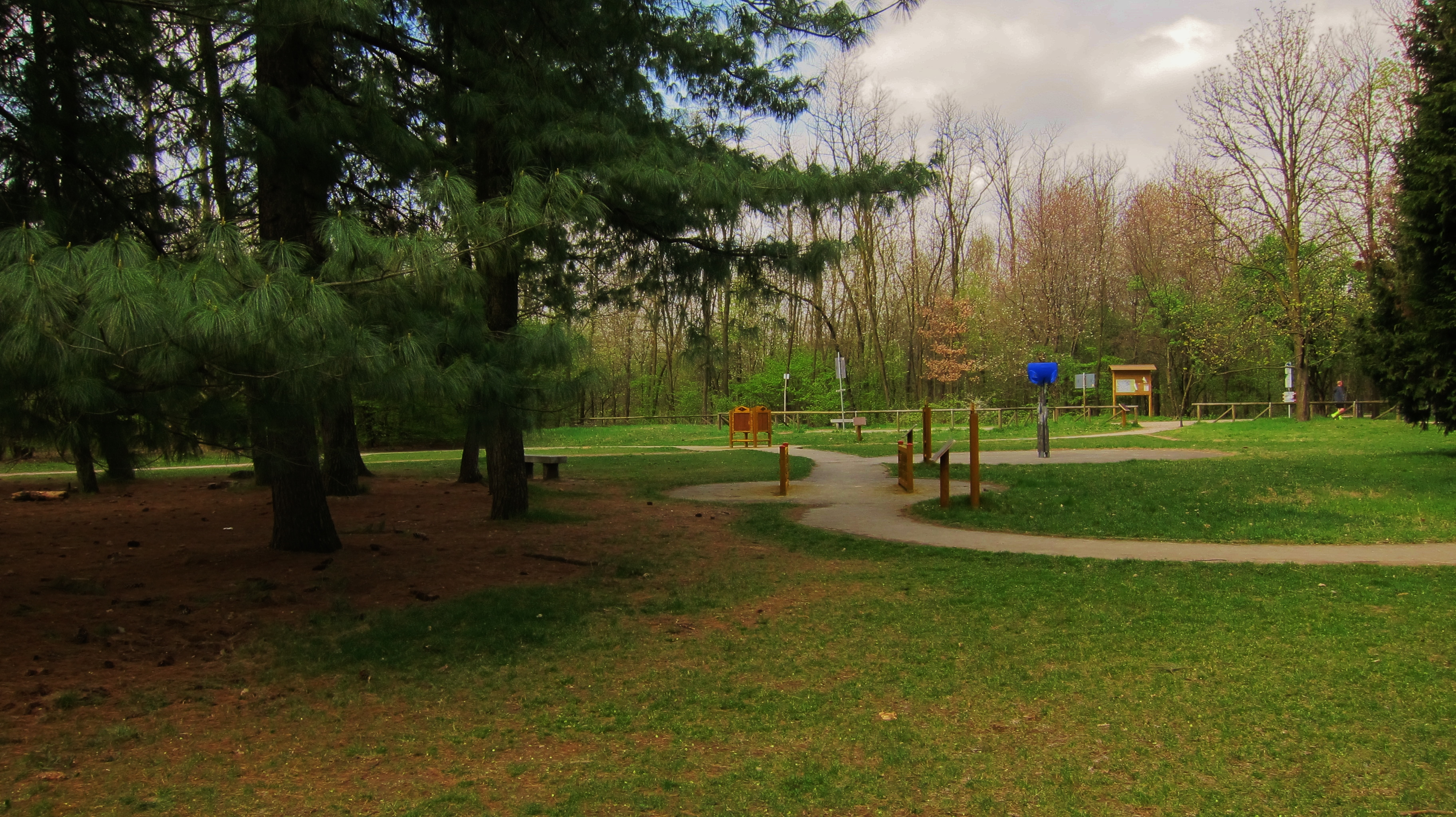 Fitness trail of the Parco Alto Milanese park in Legnano